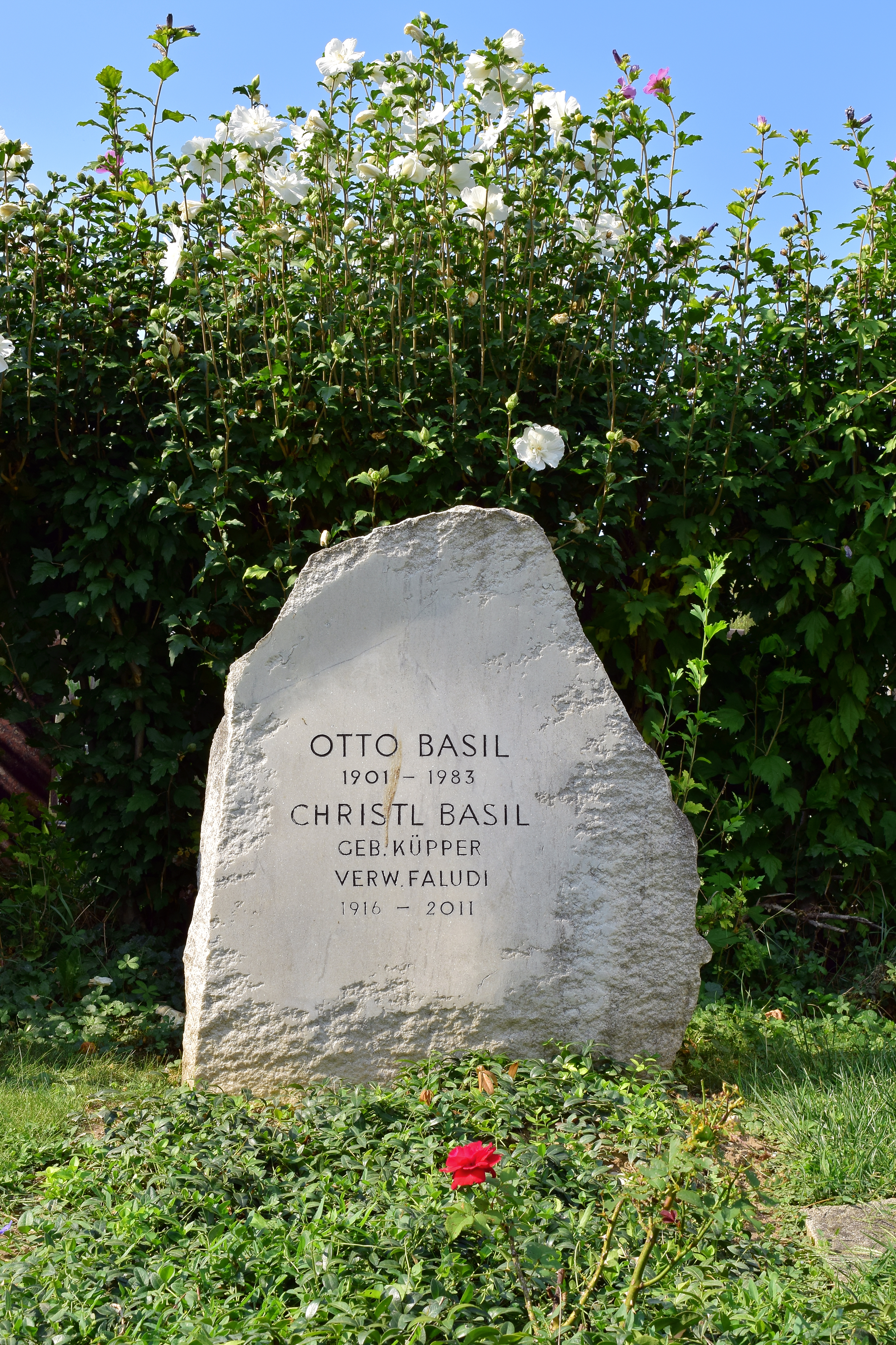 Grave of honor of Otto Basil at the Wiener Zentralfriedhof